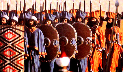 Achaemenid soldiers historical parade 2.500 years celebration